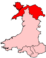 based on map made by Keith Edkins